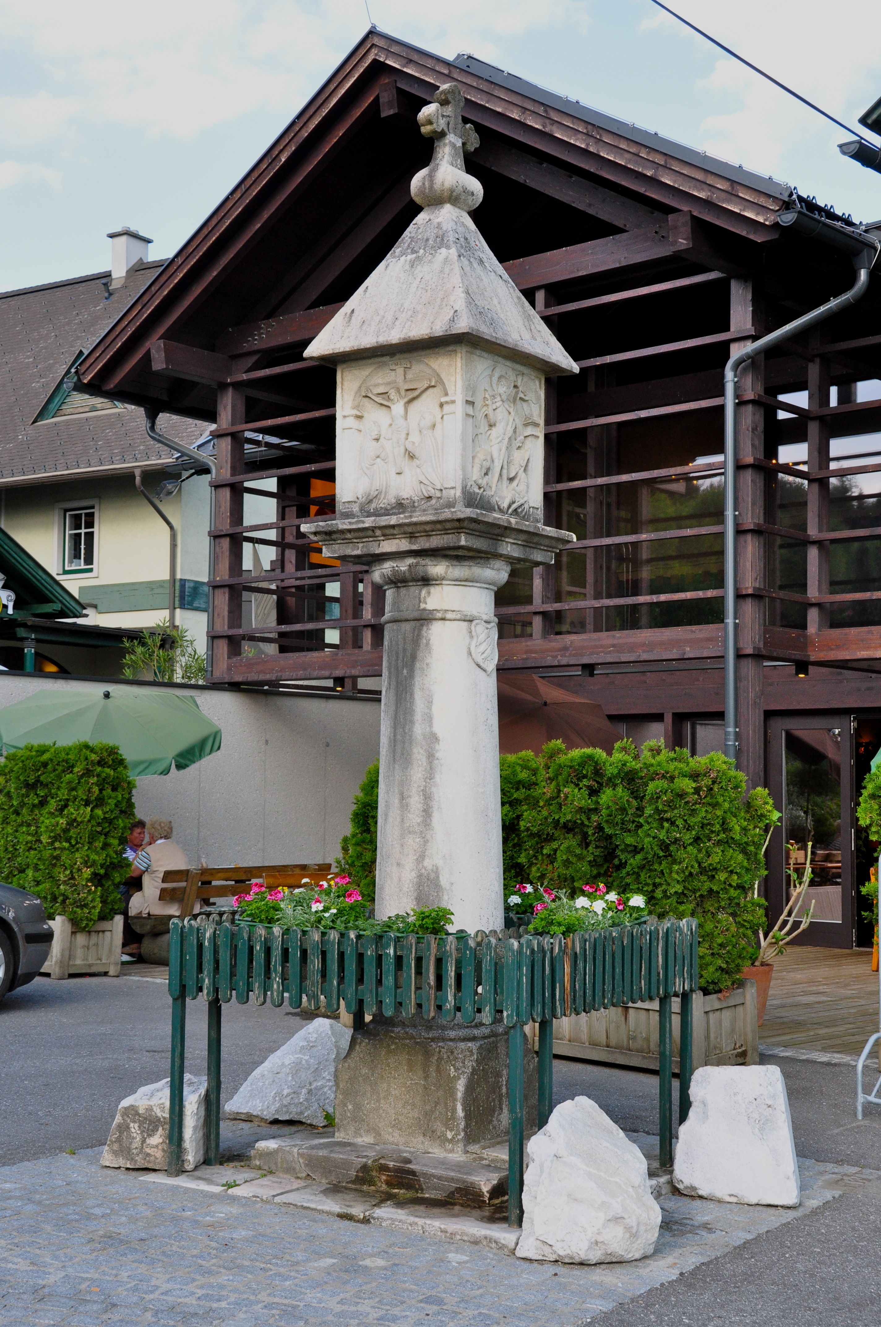 Wernberger Kreuz close to Triester Strasse #1, municipality Wernberg, district Villach Land, Carinthia, Austria, EU